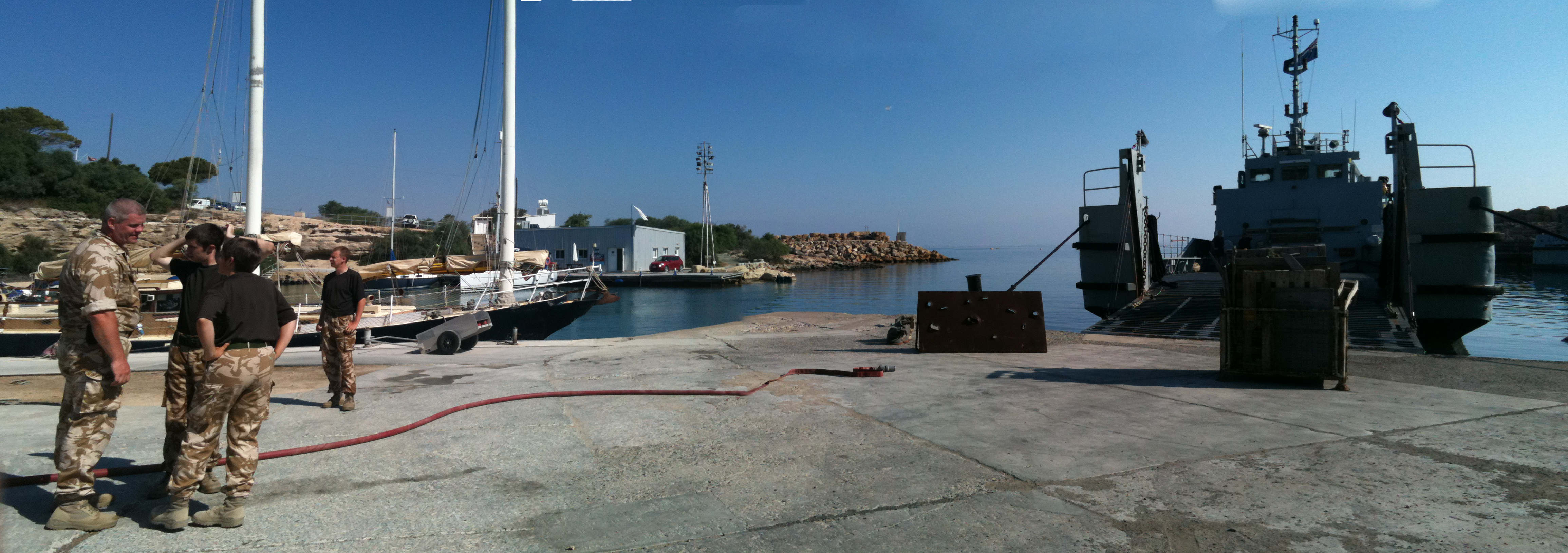 Akrotiri mole in 2010. LCU in the foreground, surrounded by RN reservists